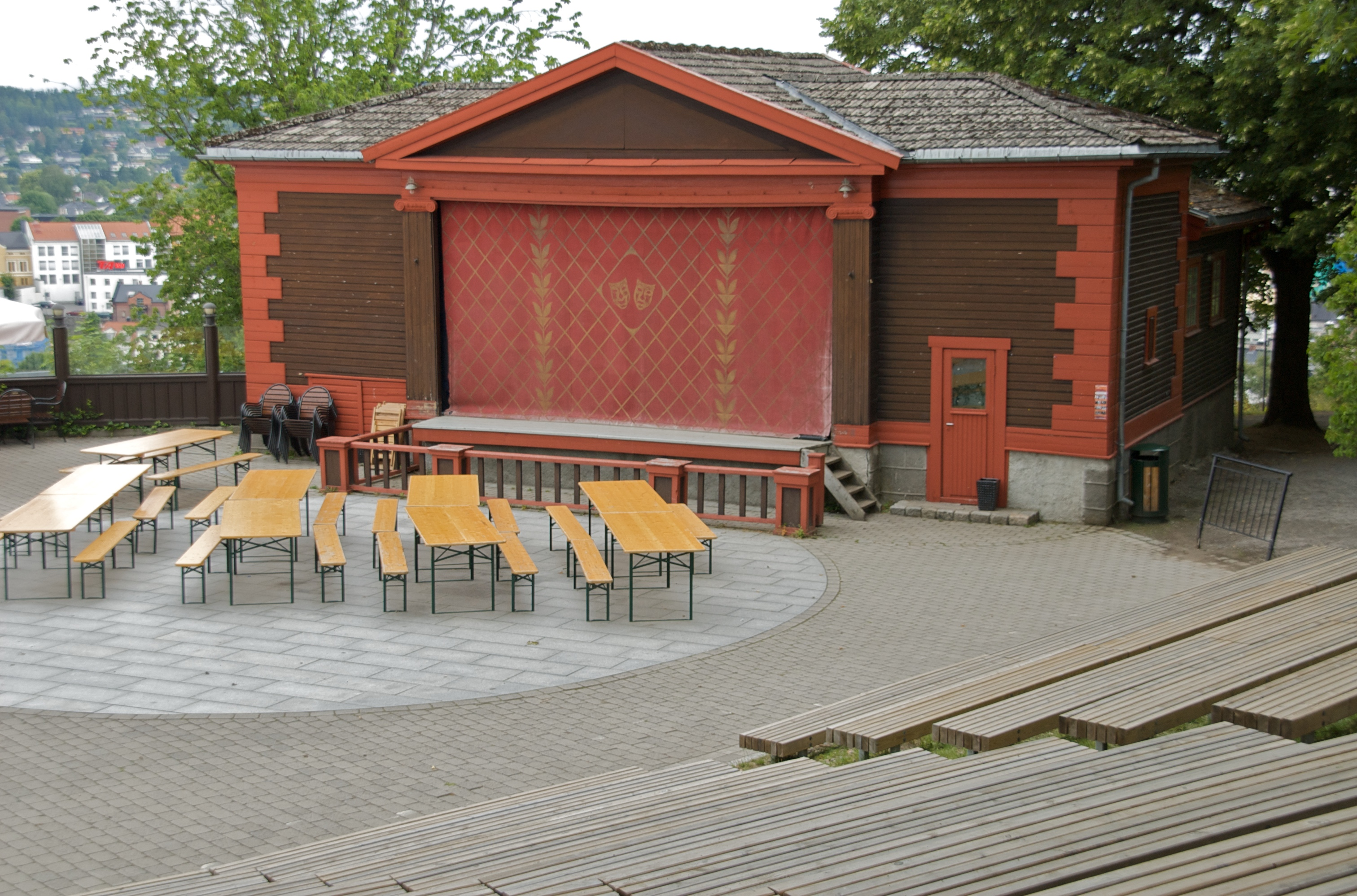 The scene at Brekkeparken, Skien, Norway.